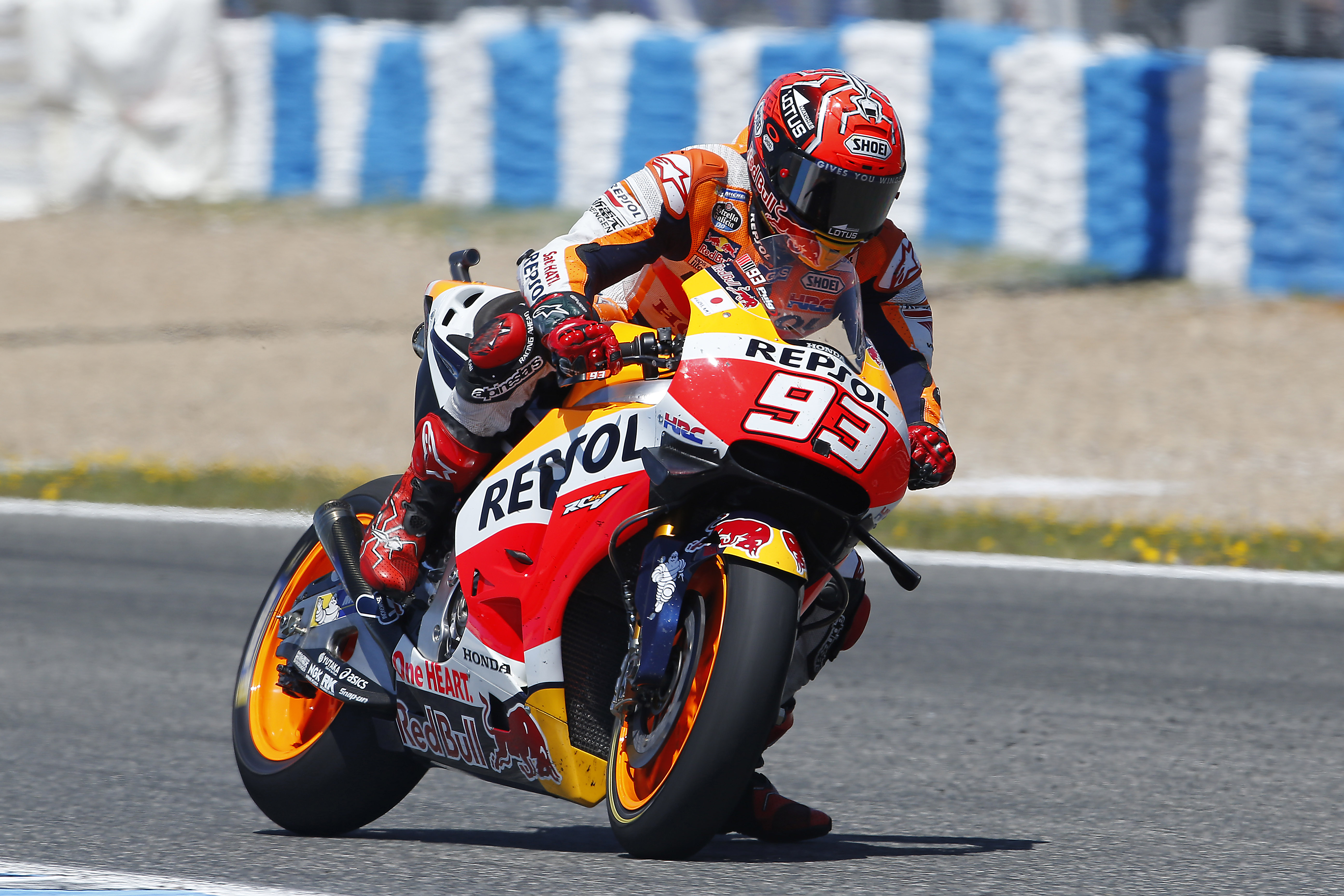 Marc Márquez, riding his Repsol Honda at the 2016 Spanish Grand Prix.